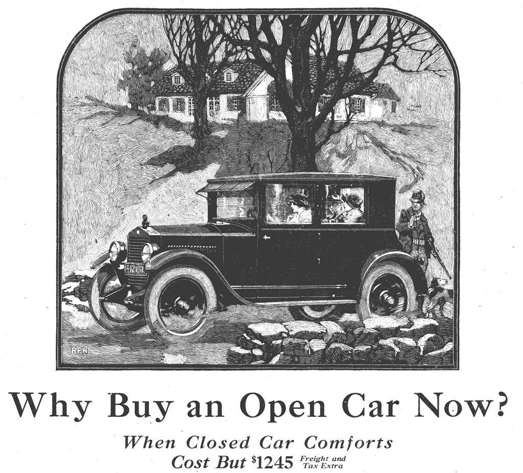 1923 Essex coach advertised by Essex in Country Gentleman, November 4, 1922 Touring $1045 Cabriolet $1145